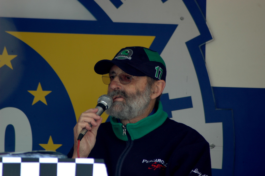 Henri Pescarolo being interviewed at the 2009 24 Hours of Le Mans